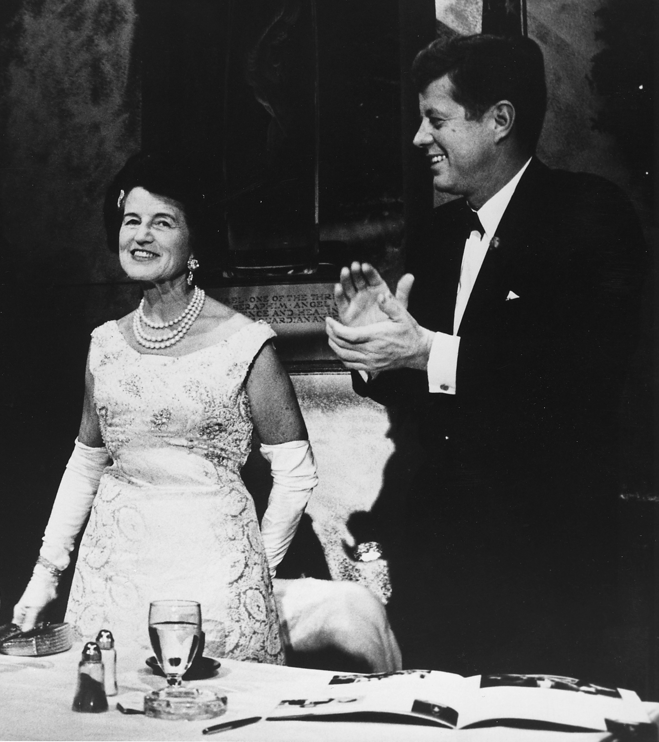 First Annual International Awards Dinner of the Joseph P. Kennedy Jr. Foundation. President Kennedy, Mrs. Rose Kennedy. Washington, D. C., Statler Hilton Hotel